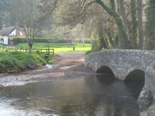 Gallox packhorse bridge and ford, Somerset